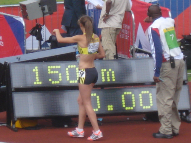 Lisa Dobriskey at Aviva London Grand Prix taken 25 July 2009